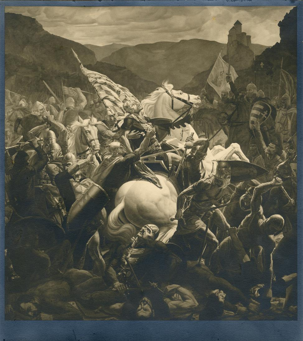 Death of Petar Svačić - battle below Gvozd